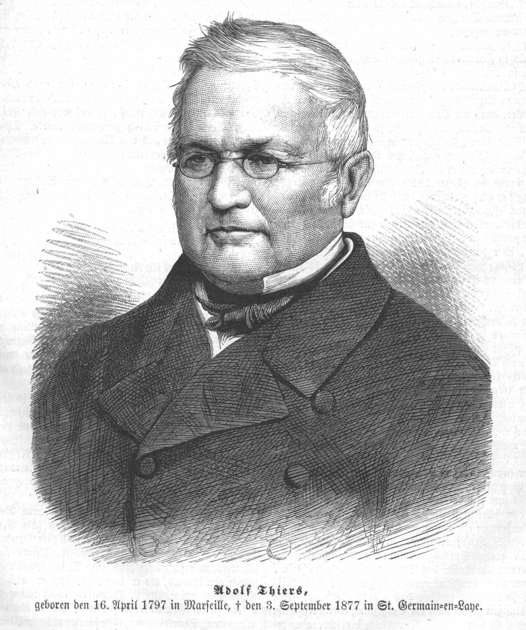 Adolphe Thiers